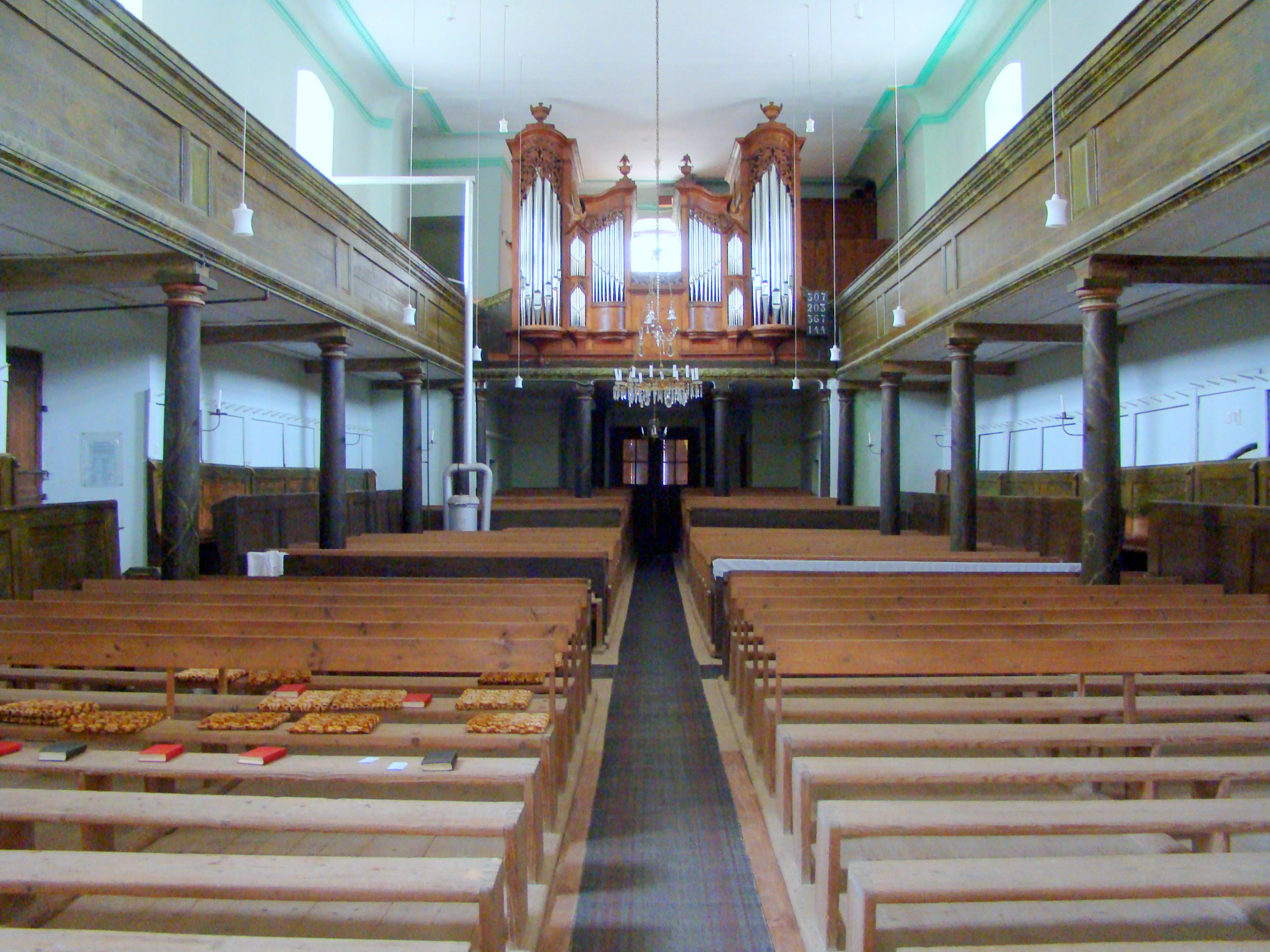 Lutheran church in Seleuș (Daneș), Mureș county, Romania